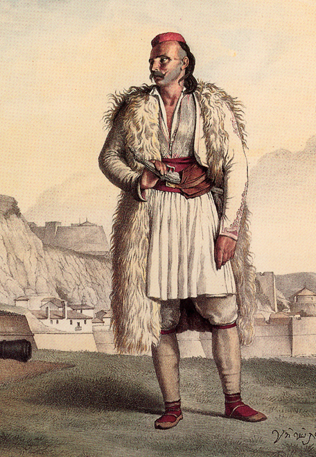 Souliotis in Corfu